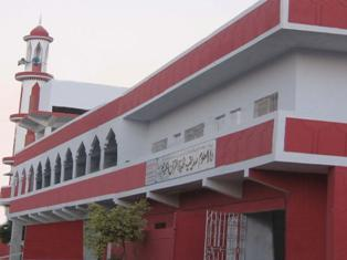 Jamia Darul-uloom Siddiqia is an Islamic seminary located in the North Karachi area of Karachi, Pakistan.